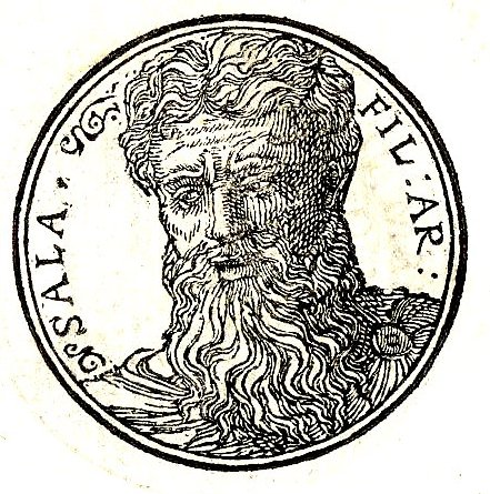 Salah was a son of Alphaxad according to Genesis 10:24, Genesis 11:12-13, and Luke 3:36, and the father of Eber according to Genesis 11:14-15.